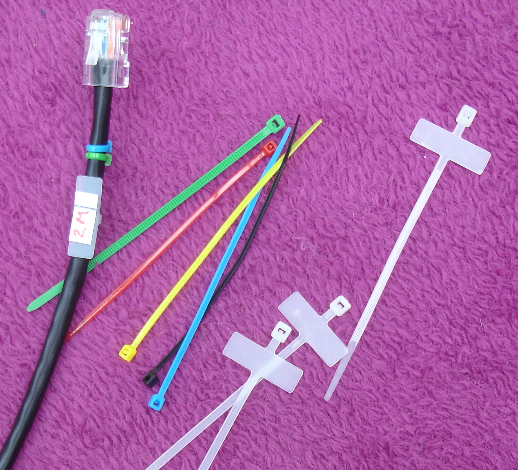 Coloured and writable cable ties